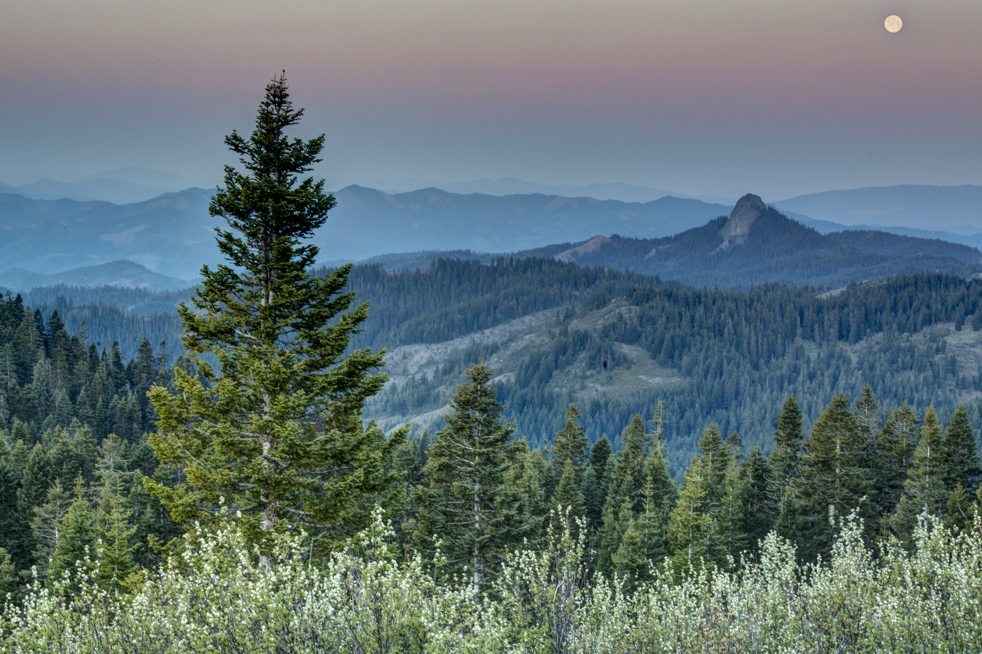 The stunning views from the Cascade-Siskiyou National Monument, including the sun, moon, Mount Shasta and Pilot Rock, were captured May 3, 2015, from the Pacific Crest Trail, or PCT. As BLM photographer Bob Wick said: “This area is a botanist’s dream where the Cascade, Great Basin and Coast Range-Klamath ecosystems come together. You can turn a corner and go from walking through a dense mossy red fir forest to sagebrush and mountain mahogany in a few feet.” Check out more photos from the BLM national monument in southern Oregon: And access info for the area